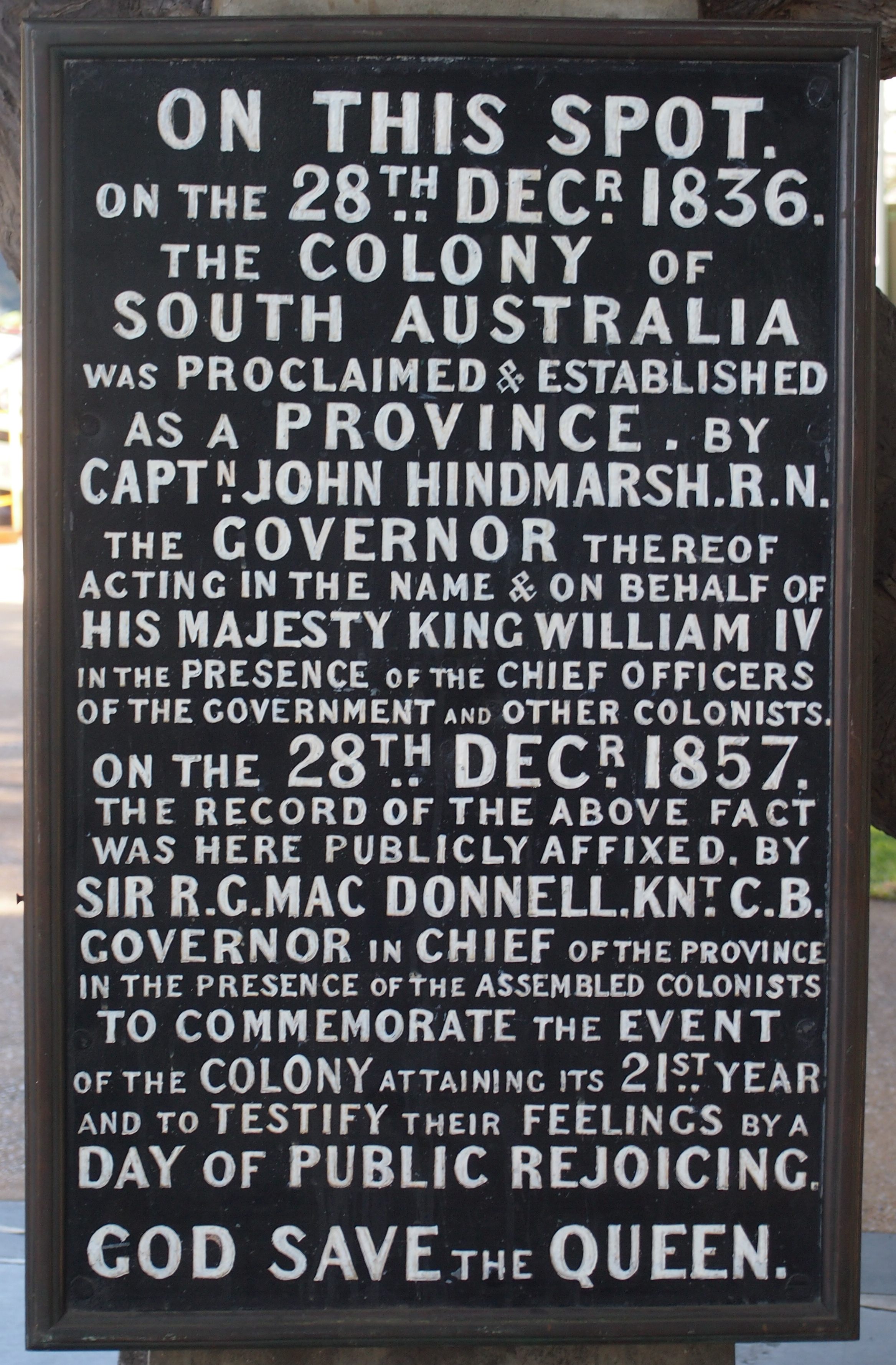 Plaque from 1857 celebrating the 21st anniversary of the Proclamation of the Colony of South Australia on 28 December 1836, located at The Old Gum Tree Reserve at Glenelg North, South Australia. Original filename = PC287277.JPG